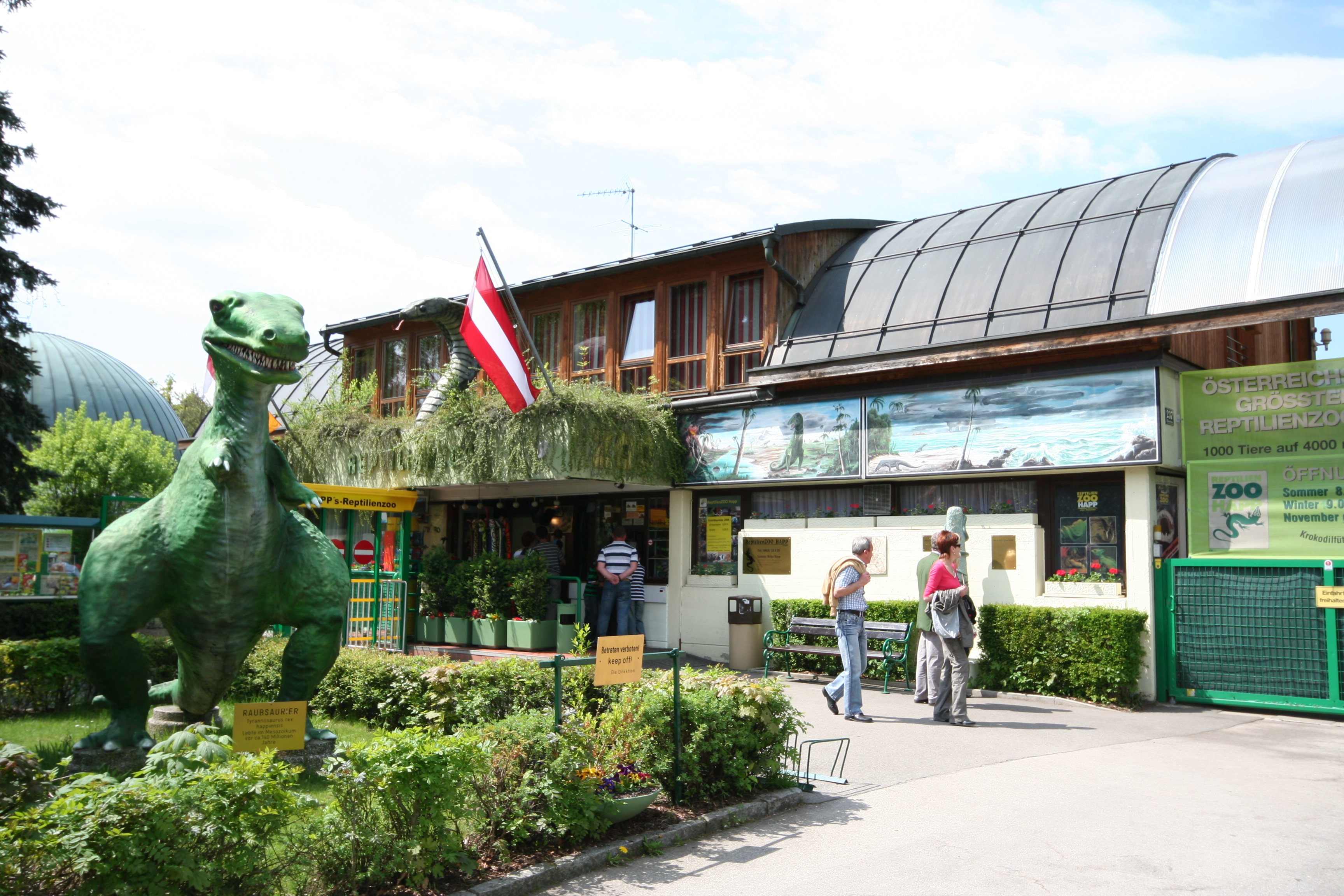 Reptilienzoo Happ Locality: Europapark Community:Klagenfurt